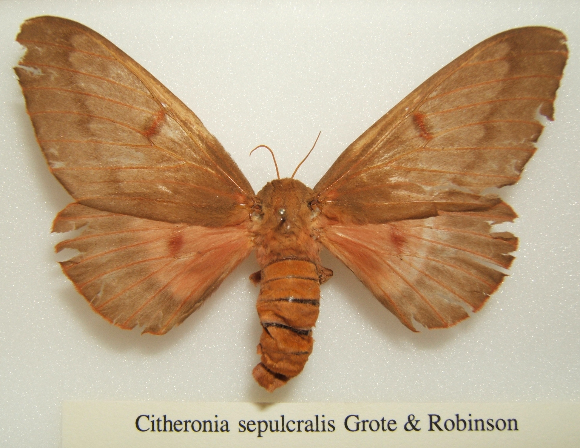 Citheronia sepulcralis adult female taken by Shawn Hanrahan at the Texas A&M University Insect Collection in College Station, Texas.